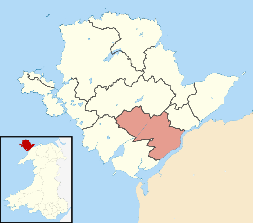 Locator map of the Bro Rhosyr electoral ward on the island of Anglesey / Ynys Mon